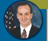 (archived)